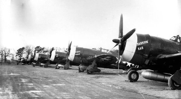 P-47D "Thunderbolts" of the 359th Fighter Group at East Wretham Airfield, England. Foreground is Serial 42-8596 "Marryin' Sam" of the 368th Fighter Squadron.